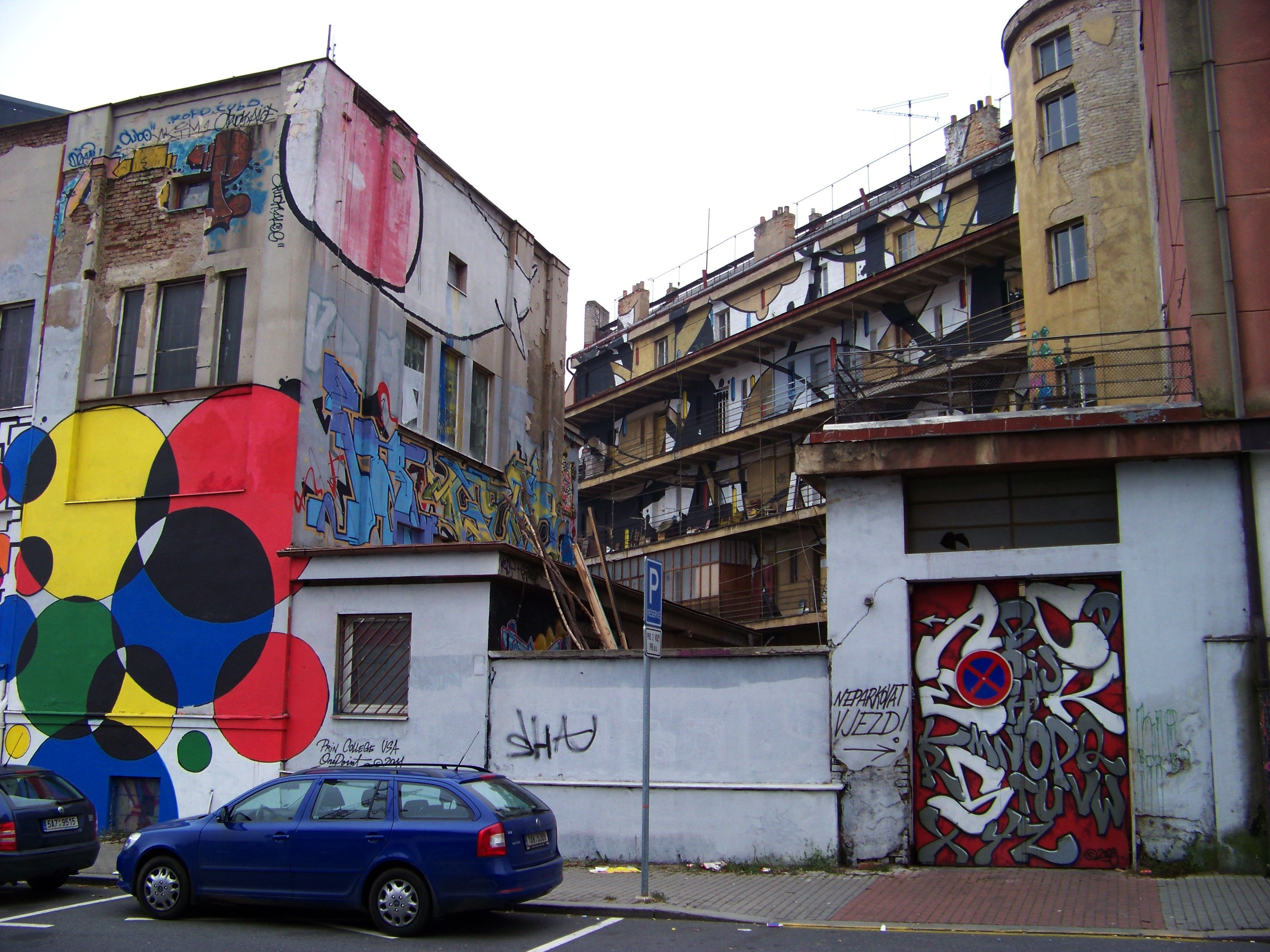 Prague-Libeň, the Czech Republic. Ocelářská 213/2, a house at the Trafačka gallery.